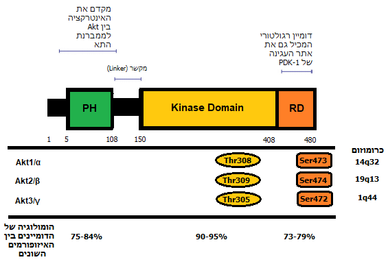 Akt general structure (upper portion), with the different phosphorylation sites of the different isoforms in the Kinase domain and in the RD (middle portion). There are short explanations in Hebrew about each part of the protein (upper portion), and also the percentage of sequence homology of the three isoforms (lower portion).